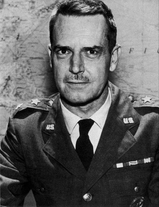 Major General Edward Lansdale, 1963 (US Air Force Photograph).